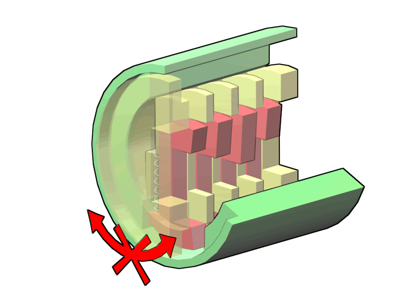 Illustration of the disc tumbler lock created by Wapcaplet in Blender and touched up in the GIMP.